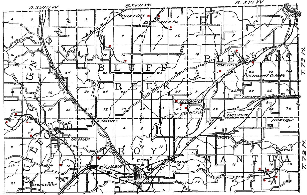 Original caption: "PLATE VIII. Map showing mines in northern Monroe county." The city is Albia, Iowa. Mines have been tinted red by the uploader. The railroads shown on the map are: CRI&P Chicago, Burlington and Quincy Railroad, CB&Q Wabash Railroad, CM&StP Chicago and North Western Railway, and Iowa Central Railway. Former coal mining camps include Hiteman, Buxton, Bluff Creek, Lockman, Coalfield and Hynes.